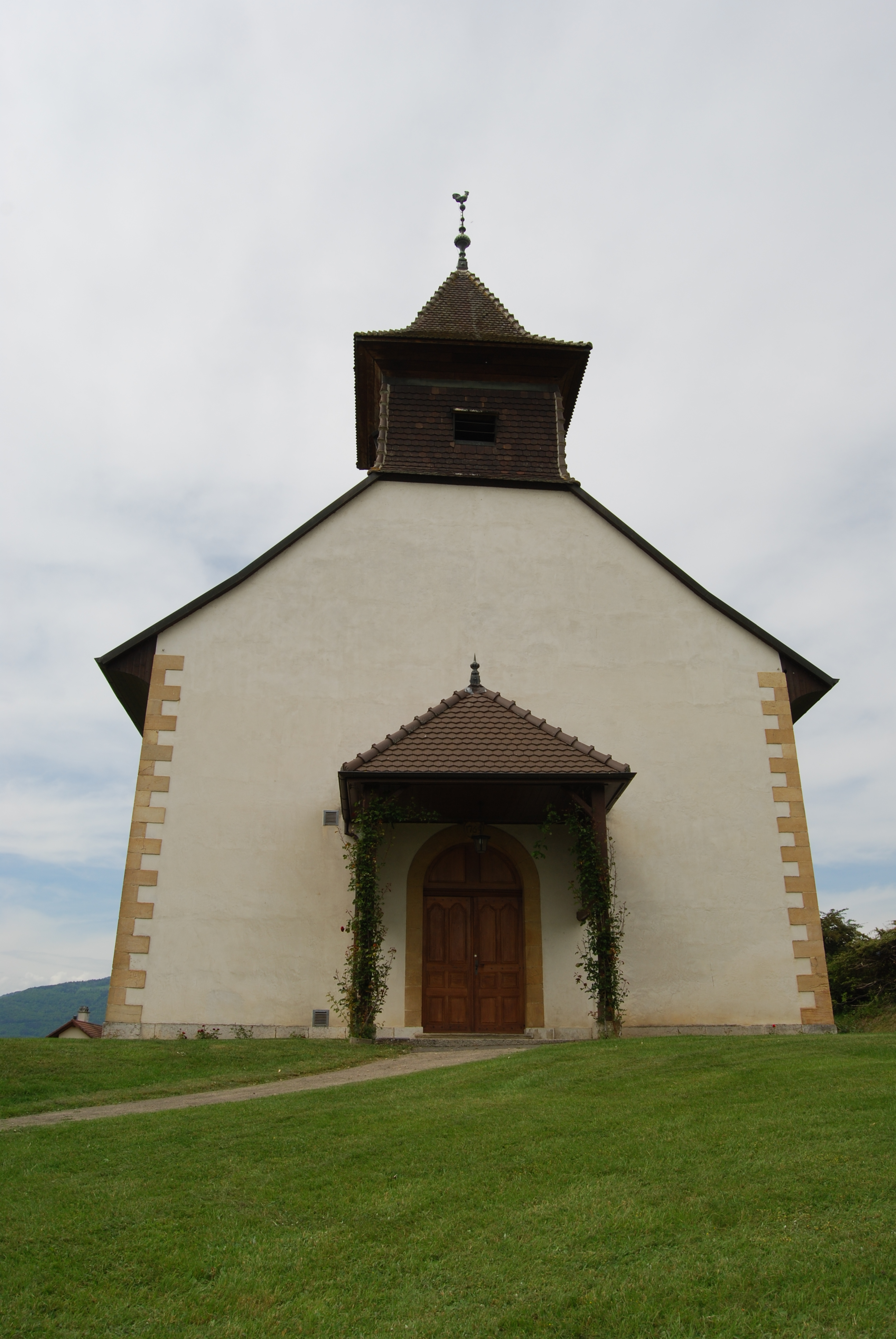 Catholic Church of Montagny-près-Yverdon, canton of Vaud, Switzerland